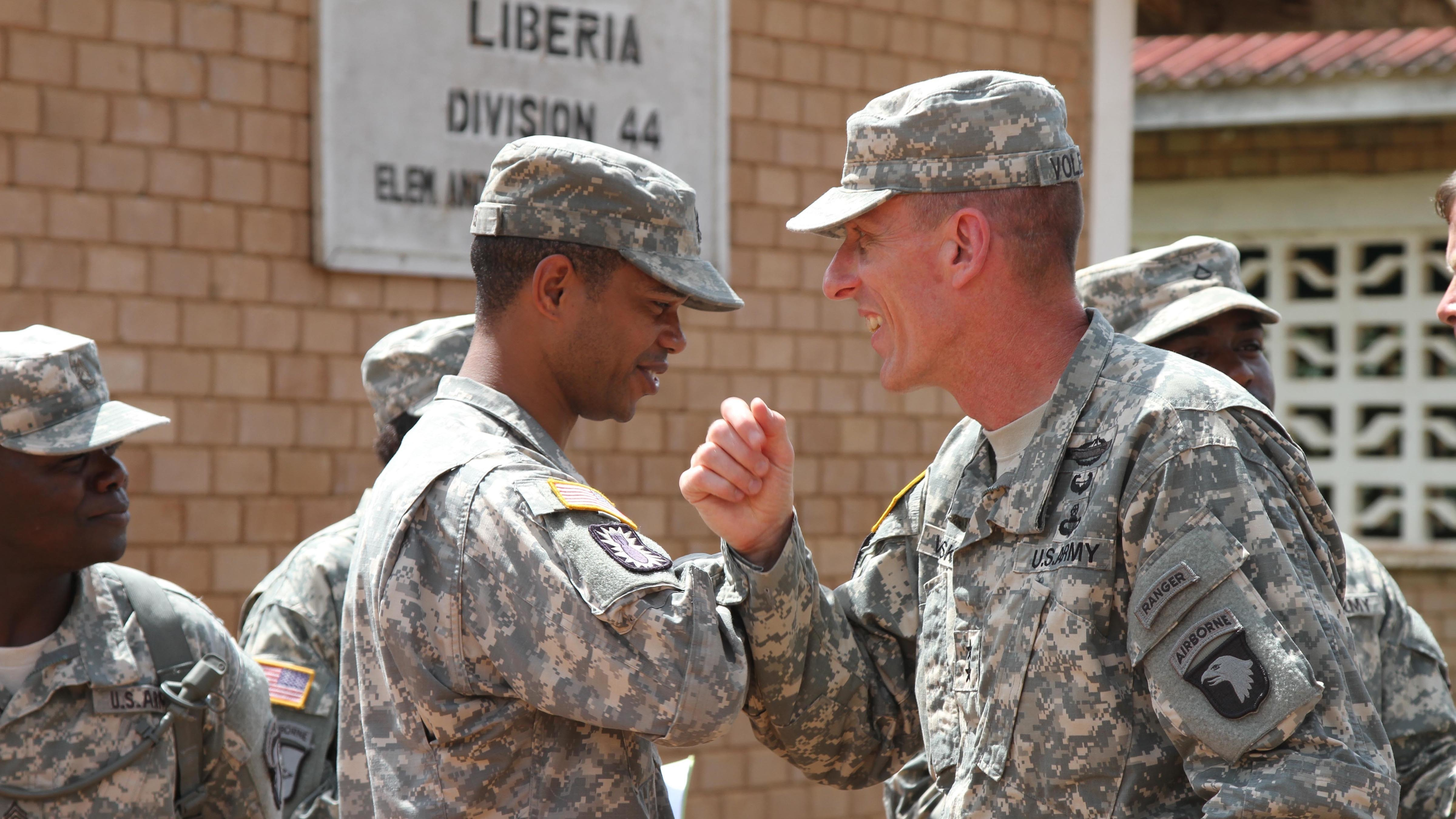 Maj. Gen. Gary Volesky, right, the Joint Forces Command - United Assistance commander, greets, with an elbow bump, Sgt. 1st Class Roderick Davis, the logistics section noncommissioned officer in charge, 129th Combat Sustainment Support Battalion, 101st Sustainment Brigade, Task Force Lifeliner, during a visit to the Lifeliner’s area of operations in Monrovia, Liberia, Nov. 6, 2014. The elbow bump is being used throughout Liberia to replace the common handshake greeting to help prevent the spread of disease. Operation United Assistance is a Department of Defense operation in Liberia to provide logistics, training and engineering support to U.S. Agency for International Development-led efforts to contain the Ebola virus outbreak in western Africa. (U.S. Army photo by Sgt. 1st Class Mary Rose Mittlesteadt, 101st Sustainment Brigade Public Affairs/Released)